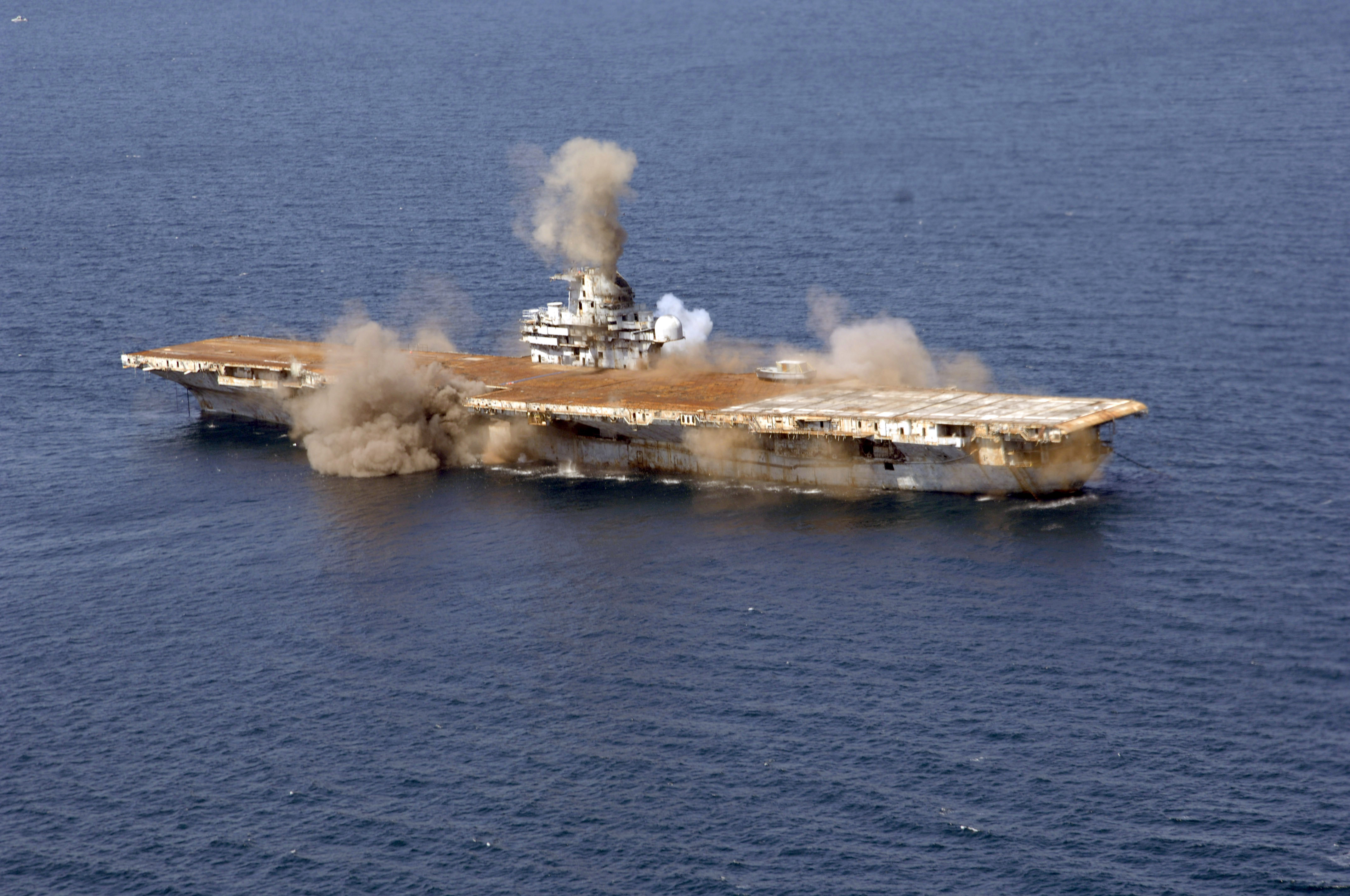 The ex-USS Oriskany, a decommissioned aircraft carrier, was sunk 24 miles off the coast of Pensacola, Fla., on May 17 to form an artificial reef. The 888-foot ship took about 37 minutes to sink below the surface. After 25 years of service to the Navy in operations in Korea, Vietnam and the Mediterranean, ex-Oriskany will now benefit marine life, sport fishing and recreation diving off the coast of the Florida panhandle.